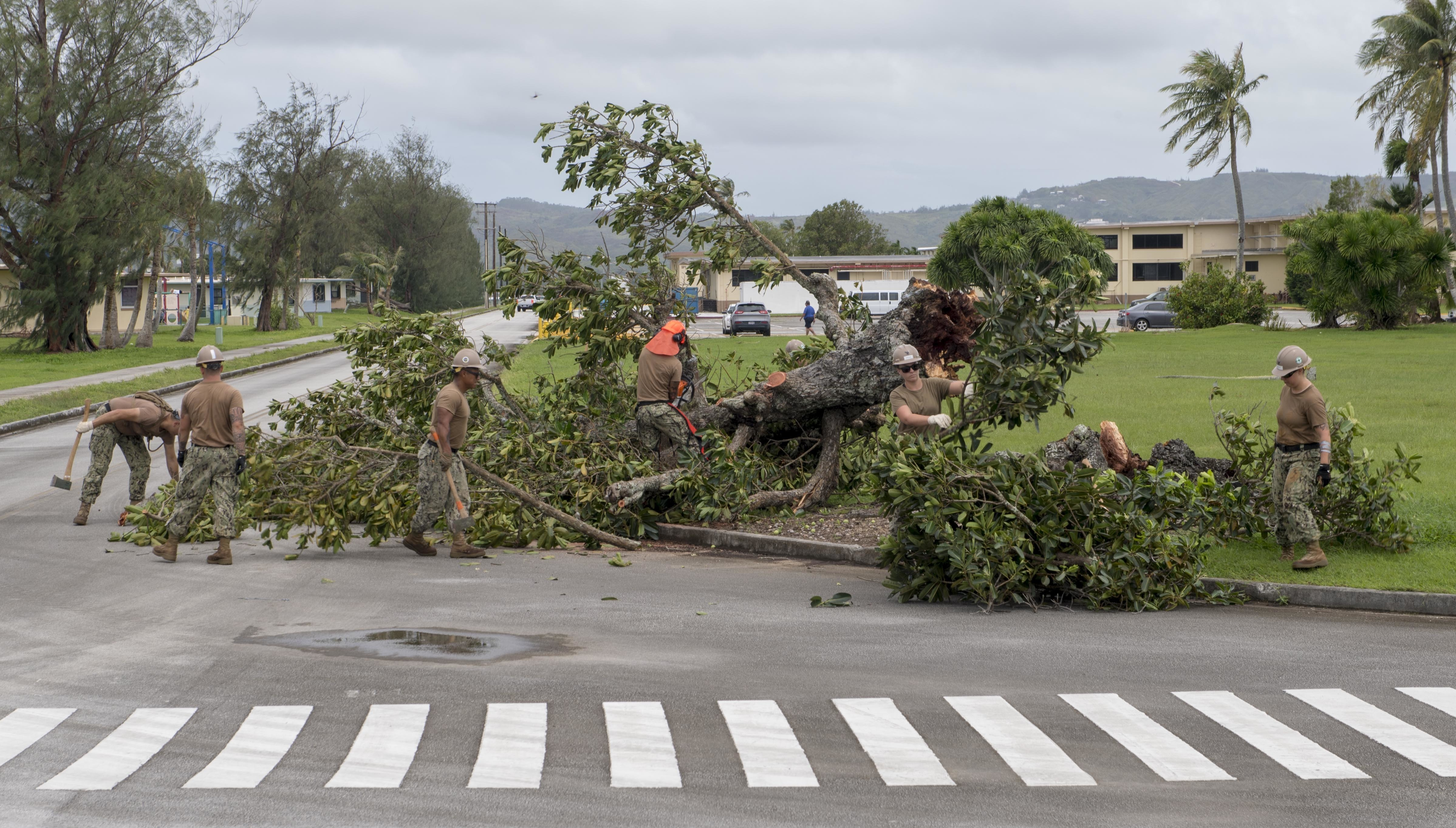 GUAM (Sept. 11, 2018) Sailors attached to Naval Mobile Construction Battalion (NMCB) 1, Detachent Guam, remove debris on Naval Base Guam following Typhoon Mangkhut, Sept. 11, 2018. Service members from Indo-Pacific Command are also providing Department of Defense support to the Federal Emergency Management Agency, and working with Guam and Commonwealth of the Northern Marianas civil and local officials for Typhoon Mangkhut recovery efforts. (U.S. Navy photo by Mass Communication Specialist 3rd Class Kryzentia Richards/Released)180911-N-BV658-1093